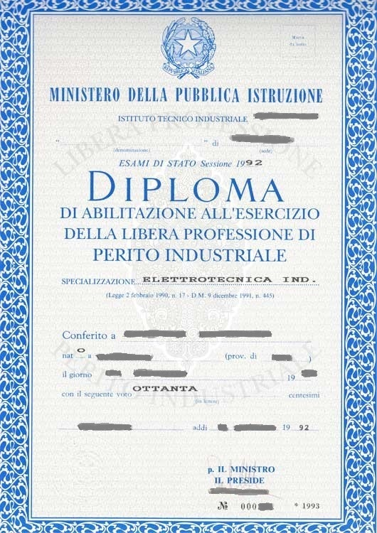 License to practise the job of industrial technician.